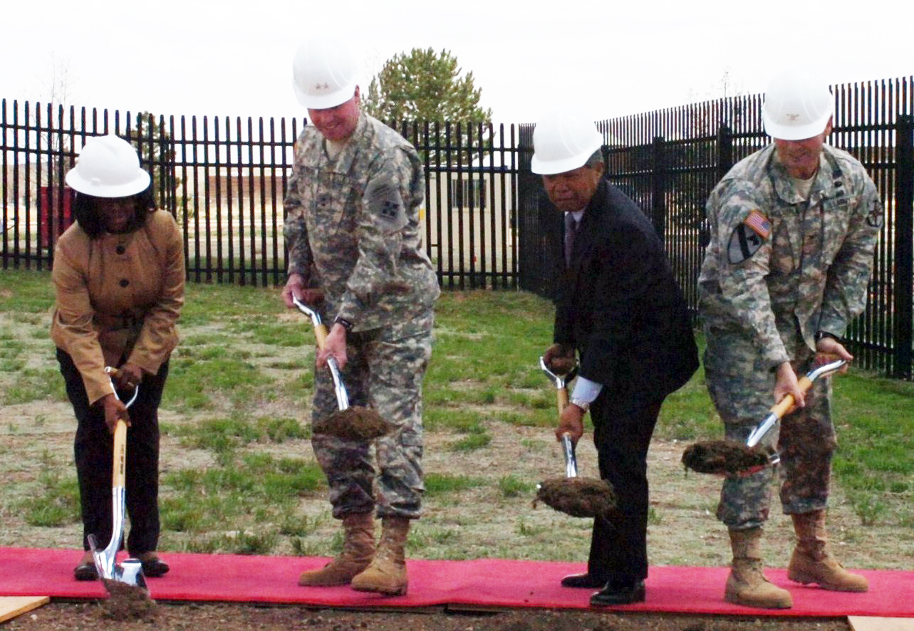 FORT CARSON, Colo. -From left; Barbara Myrick, owner of B&M construction; Maj. Gen. David G. Perkins, commander 4th Infantry Division and Fort Carson; retired Lt. Gen. Edward Soriano, president of the Mountain Post Historical Association at Fort Carson, and Col. Robert McLaughlin, garrison commander, break ground on the site of the future 4th Infantry Division and Fort Carson Museum Activity April 30.